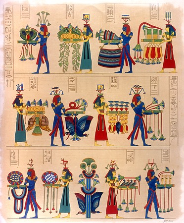 Nile gods and personifications of nomes and cities carrying offerings. Scene from tomb of Ramses III. (KV11)